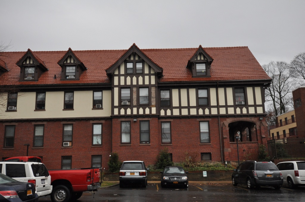 YWCA housing complex in White Plains, New York; listed on NRHP as Presbyterian Rest for Convalescents.